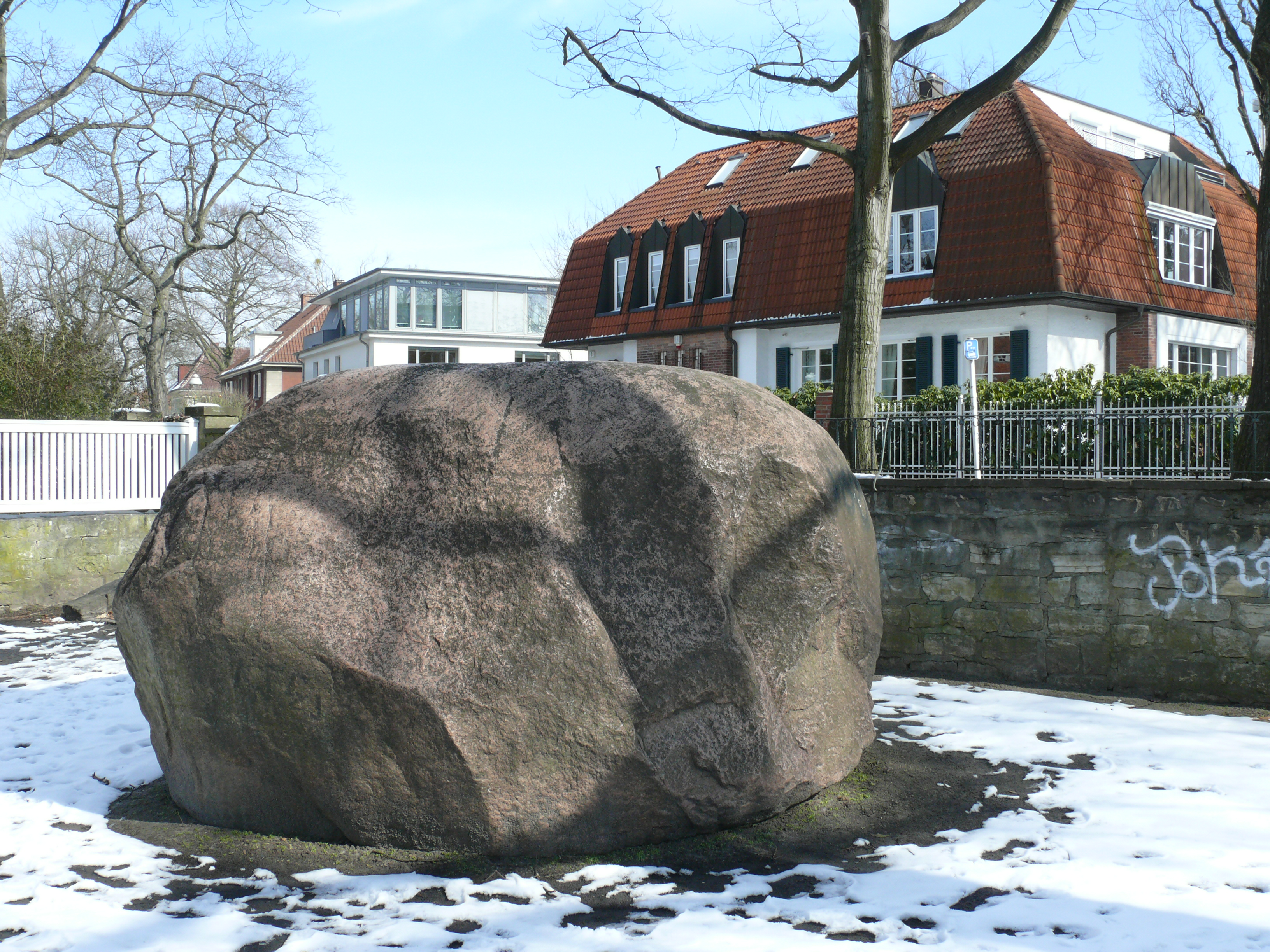 Glacial erratic at Thielpark in Berlin-Dahlem found 1912